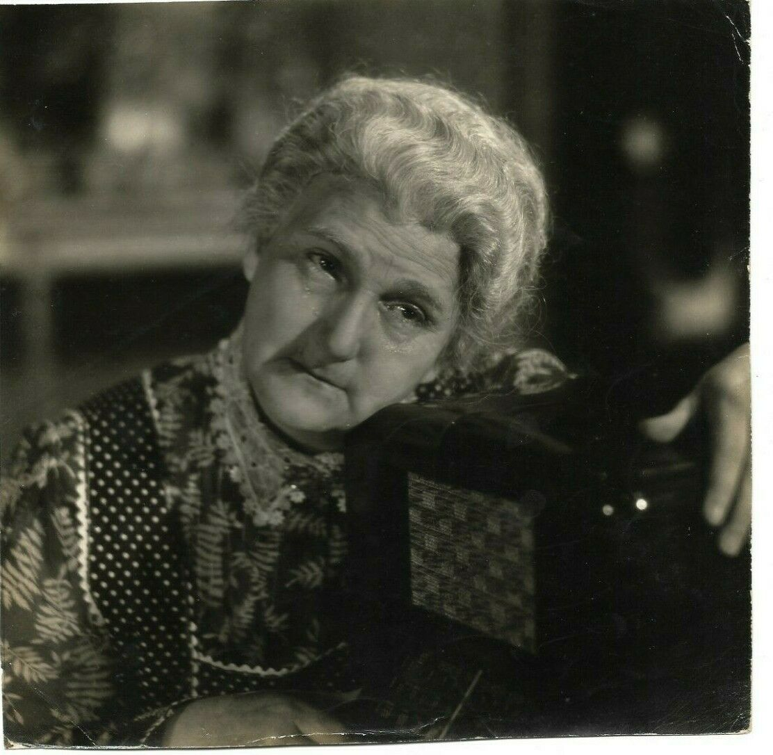 Actress Sara García in a publicity photo, she is known as "La abuelita de México".